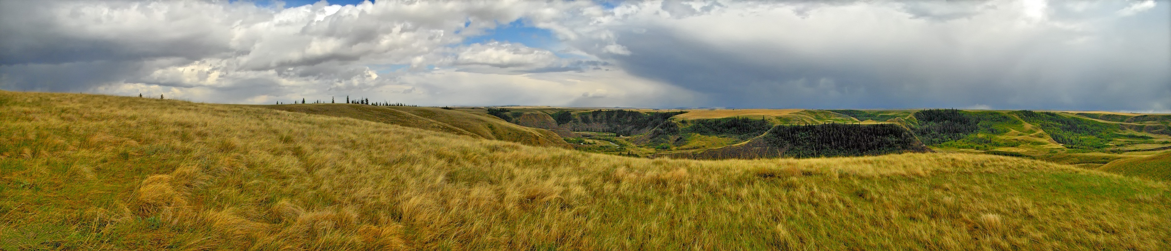 Panoramic view of Beynon, Alberta. Photograph by Jason Thomas. 2009. Panorama stitching and final photo prep by .